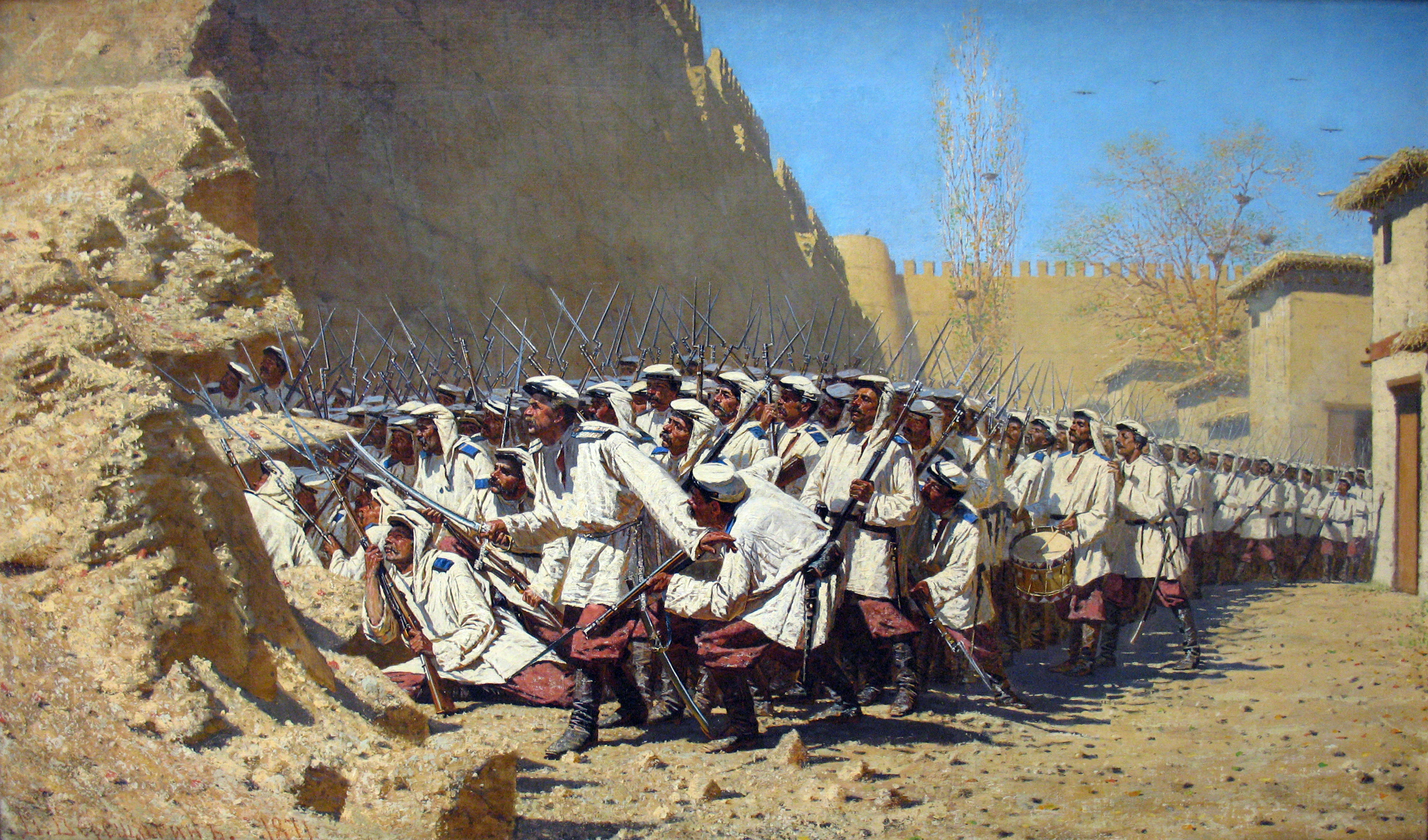 Painting commemorating the capture of Khiva by Russian Imperial troops